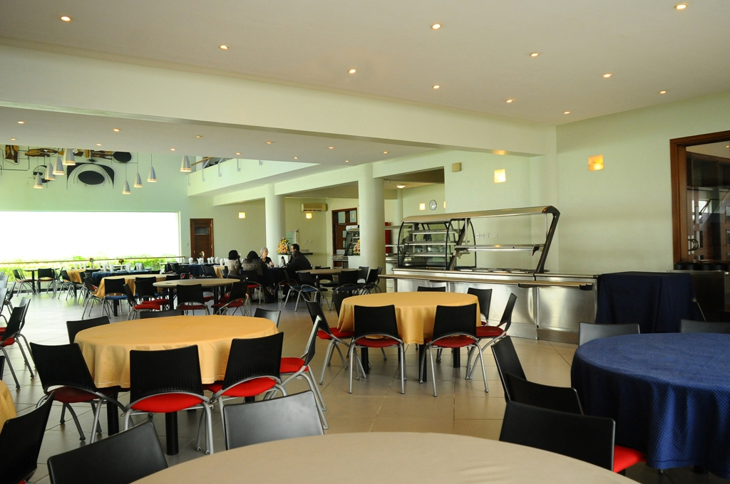 Lagos Business School's Ground Floor Cafeteria